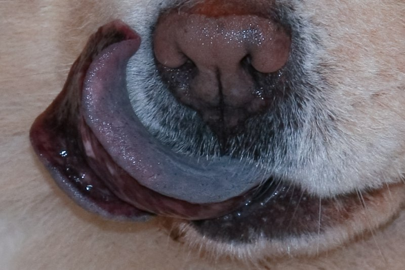 Chow Chow tongue closeup.